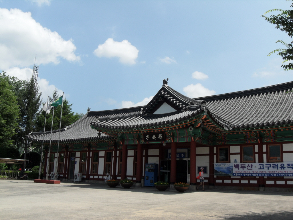 Korail Yeongwol Station